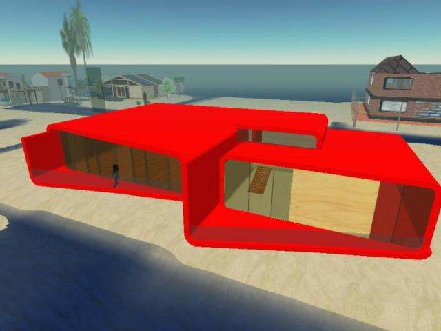 My attempt to build a replica of the PR43 house by Michel Rojkind More info about the beautiful house at